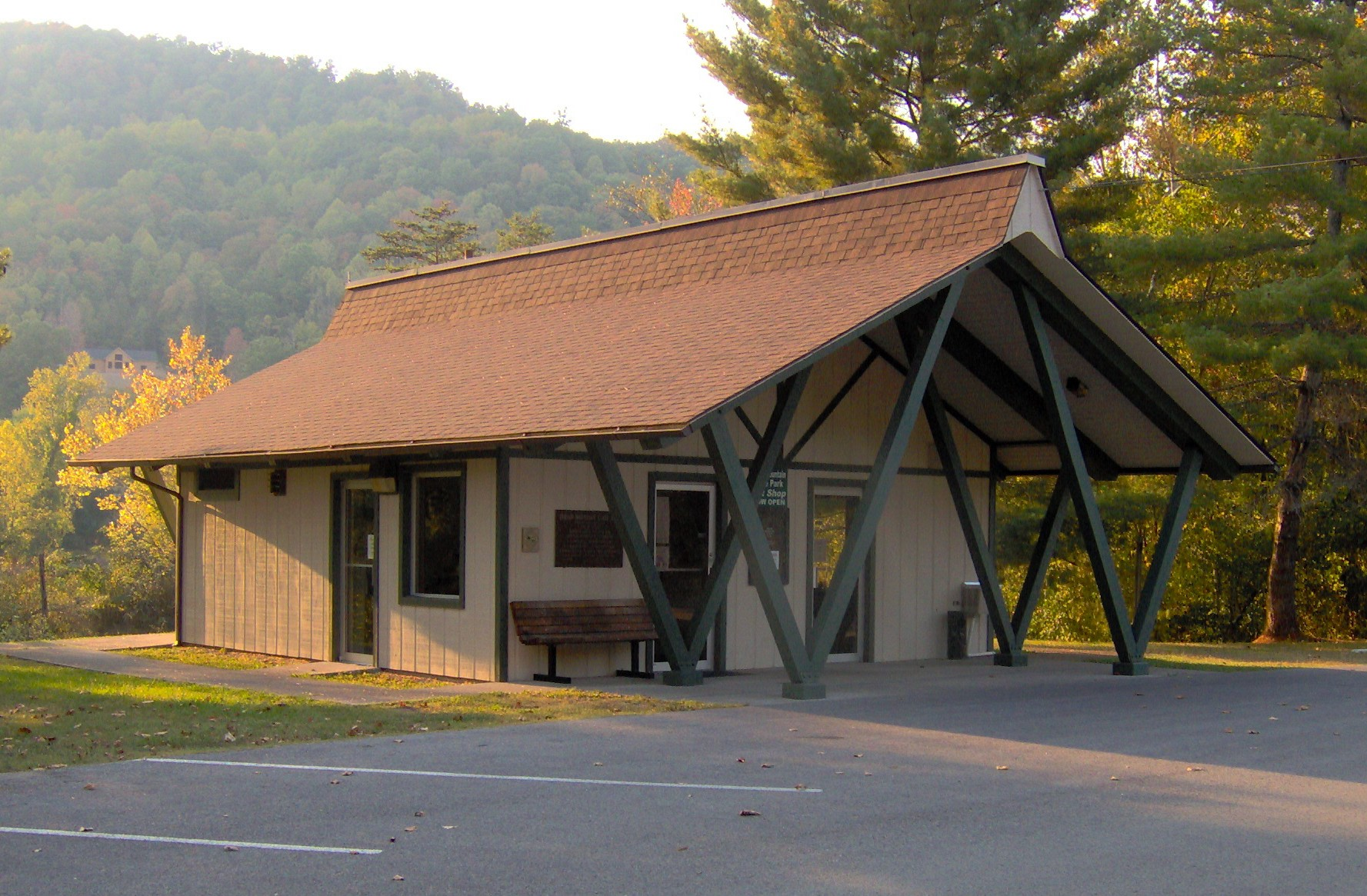 The visitor center at Indian Mountain State Park in Jellico, Tennessee, in the southeastern United States.